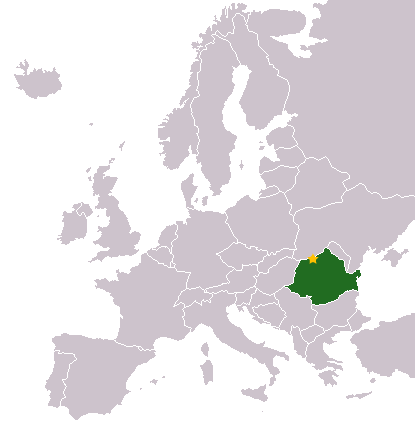 Location of Sighetu Marmației (Romania) in Europe.